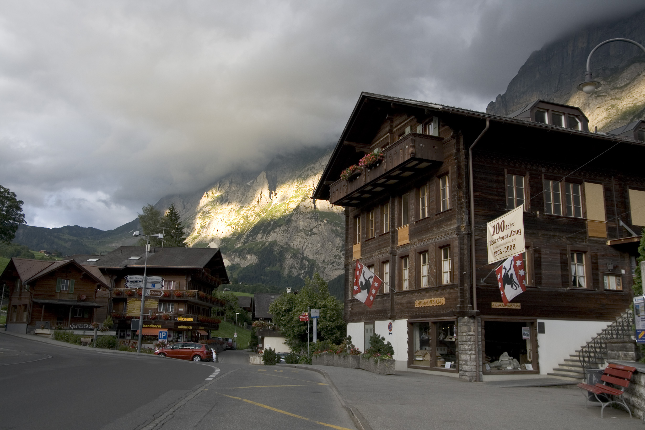 Heimatmuseum, Grindelwald